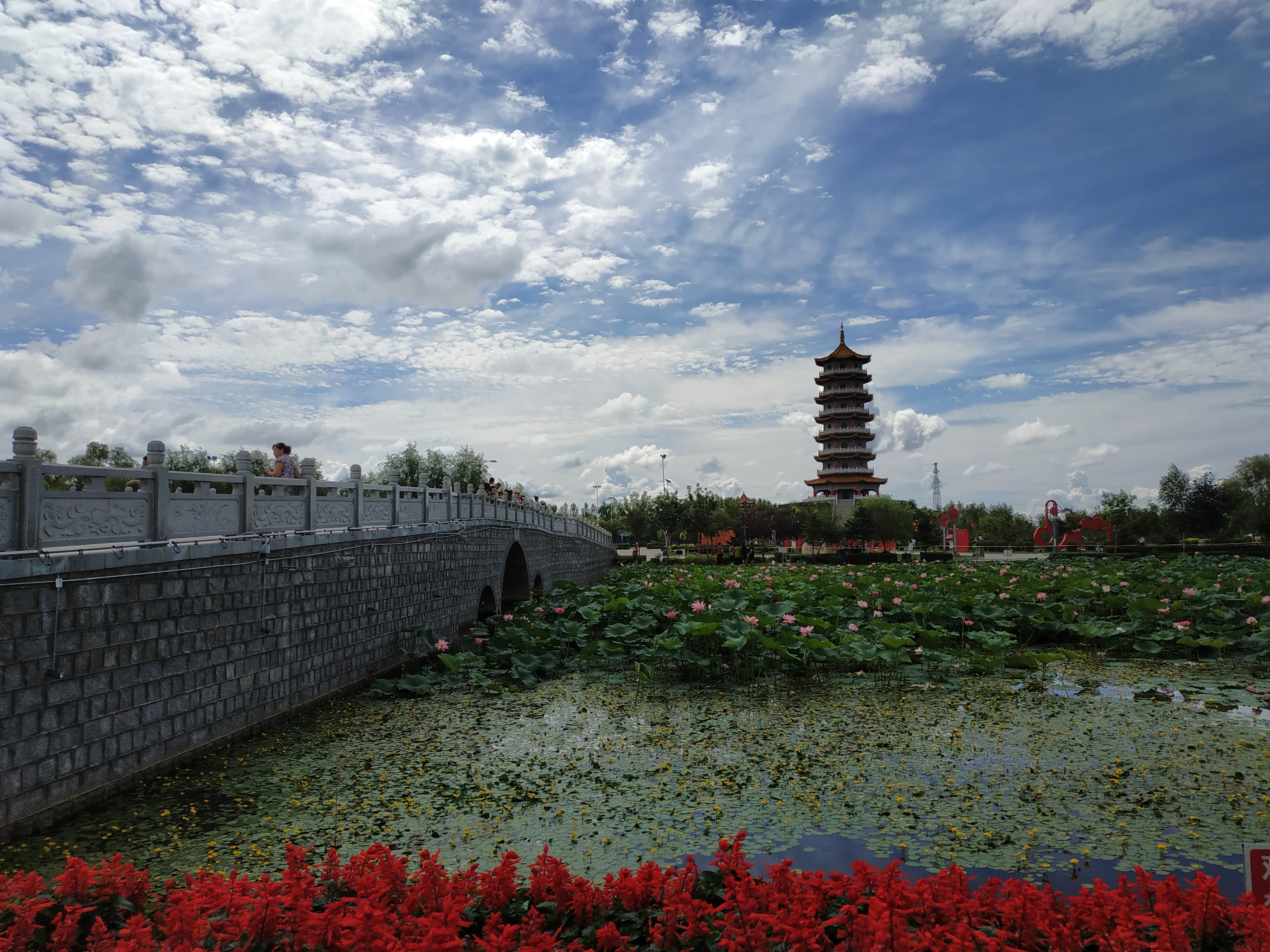 Fengming Park, situated in Tangyuan, Heilongjiang Province.